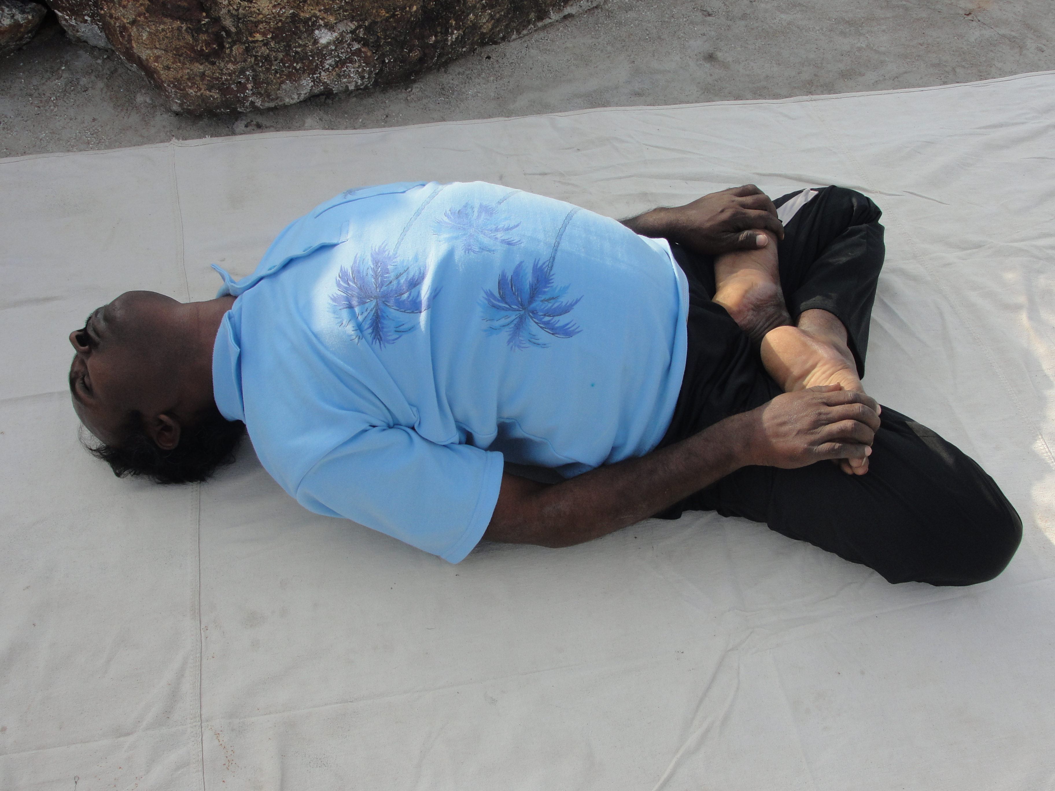 A style of matsyasana